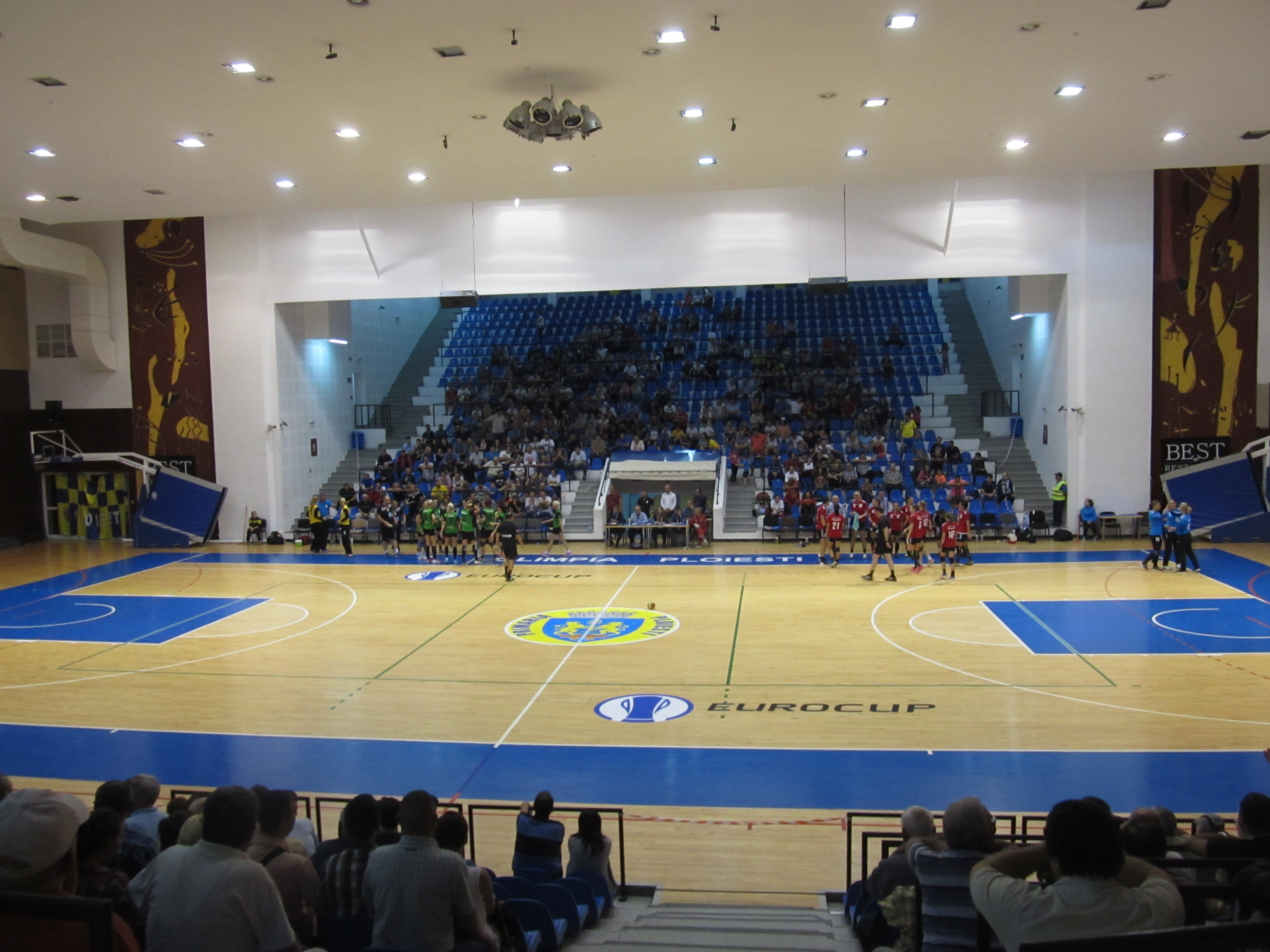 Inside Olimpia Sports Hall in Ploiești during the handball game CSM Ploiești-HCM Râmnicu Vâlcea, on 14 September 2015